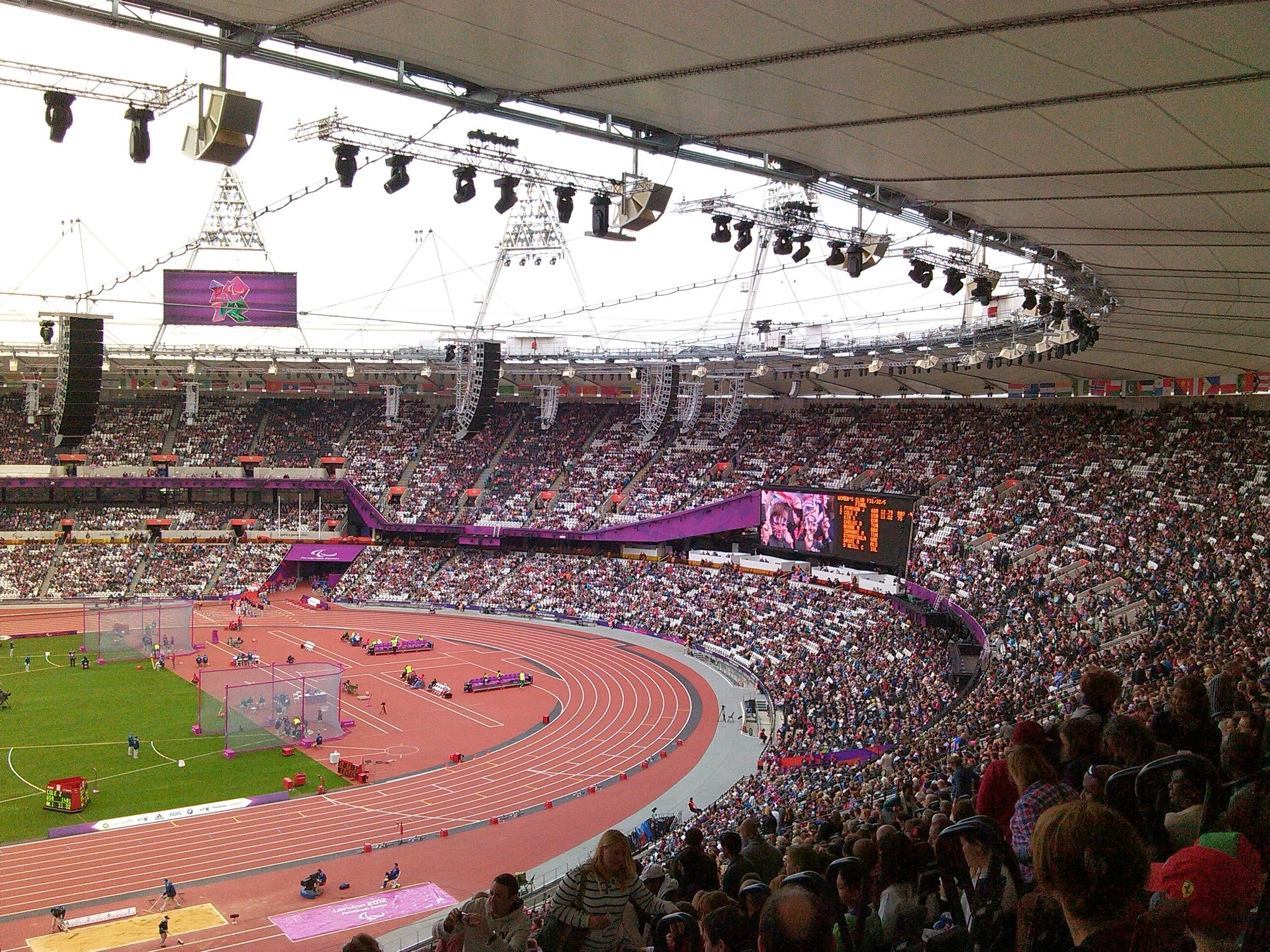 Looking across the stadium during 2012.